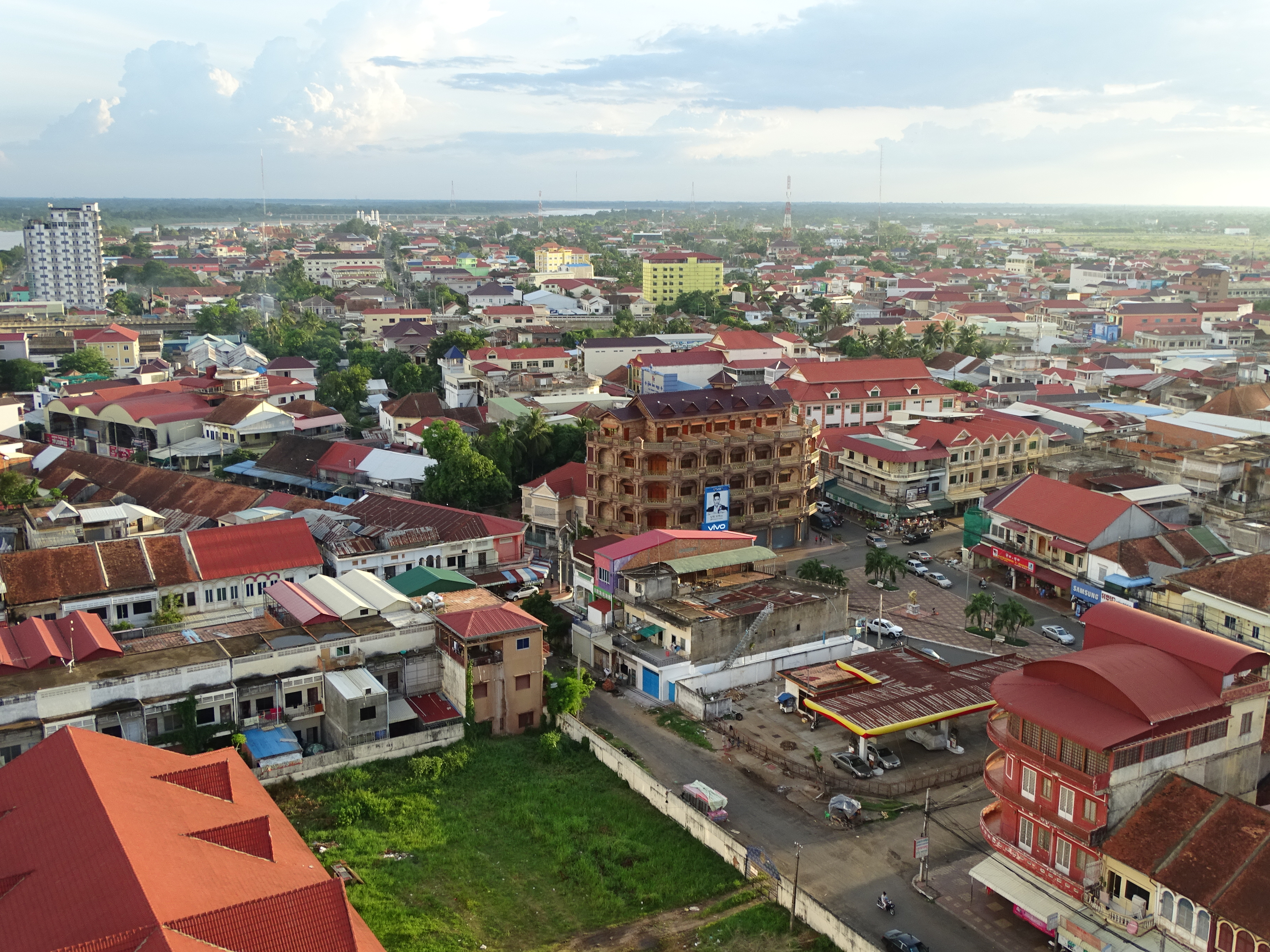 View over Town at Sunset - From LBN Asian Hotel - Kampong Cham - Cambodia - 01